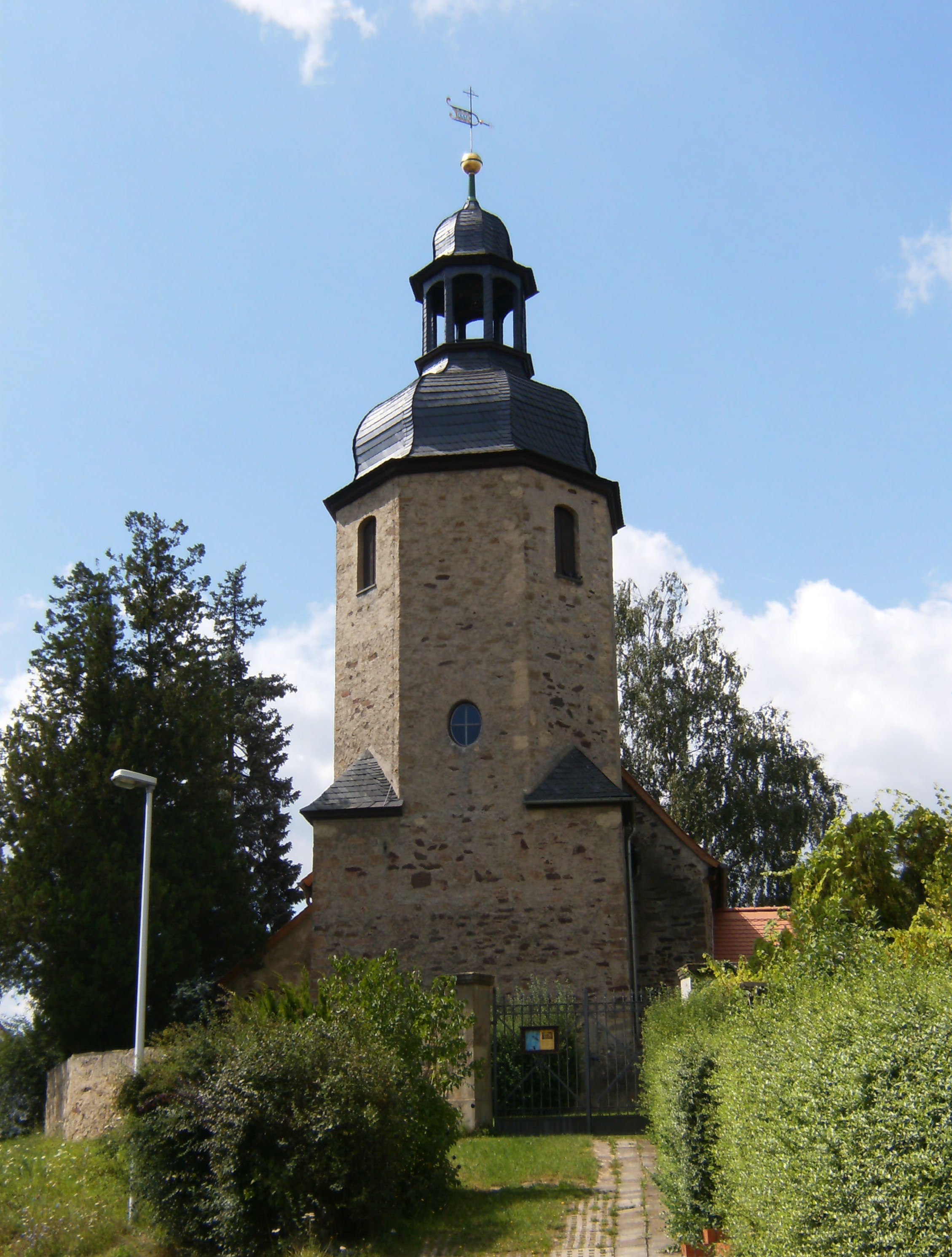 Gera Oberröppisch, village church.